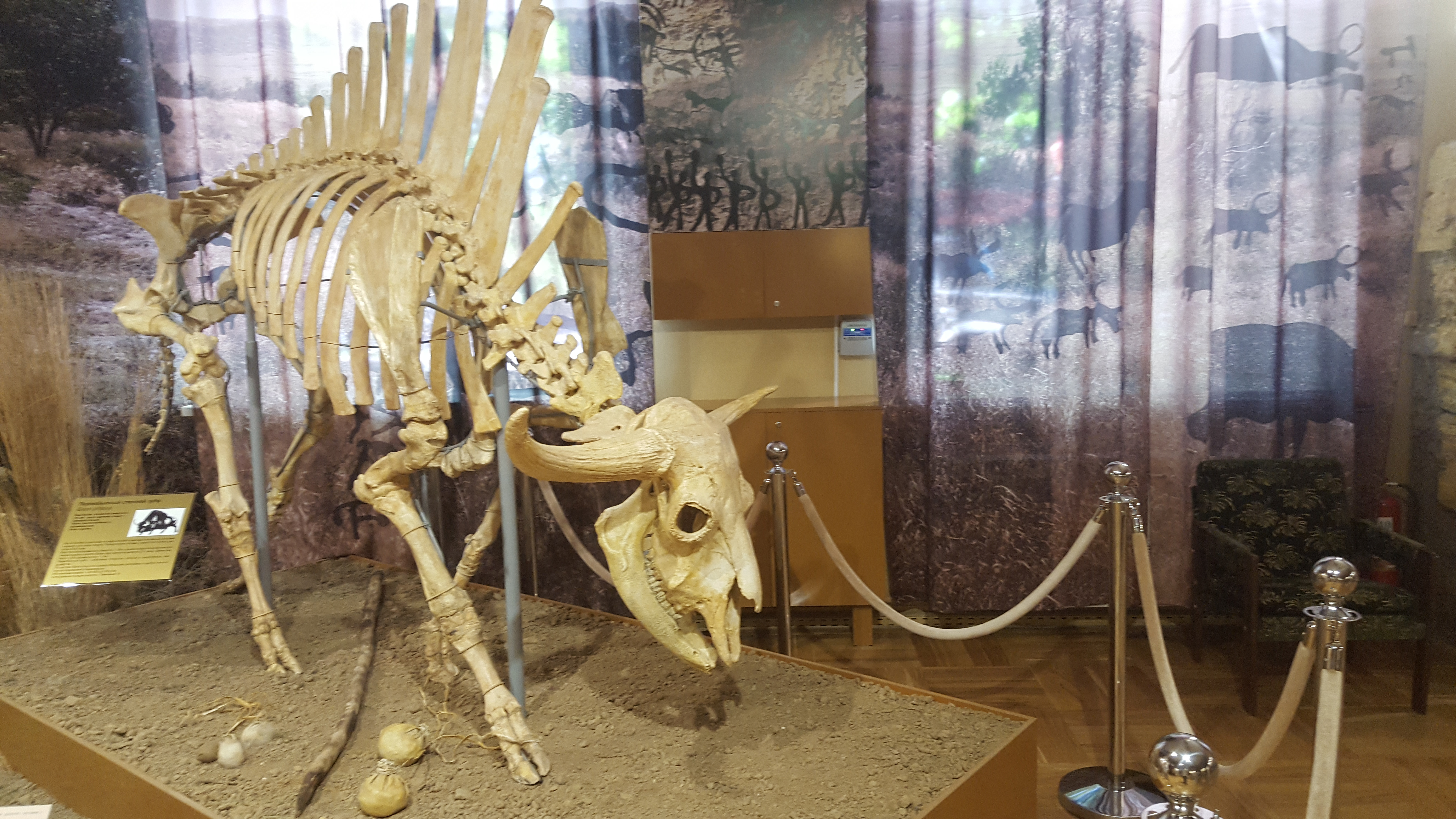 Steppe bison (Bison priscus) skeleton in the Azov History, Archaeology and Paleontology Museum-Reserve.